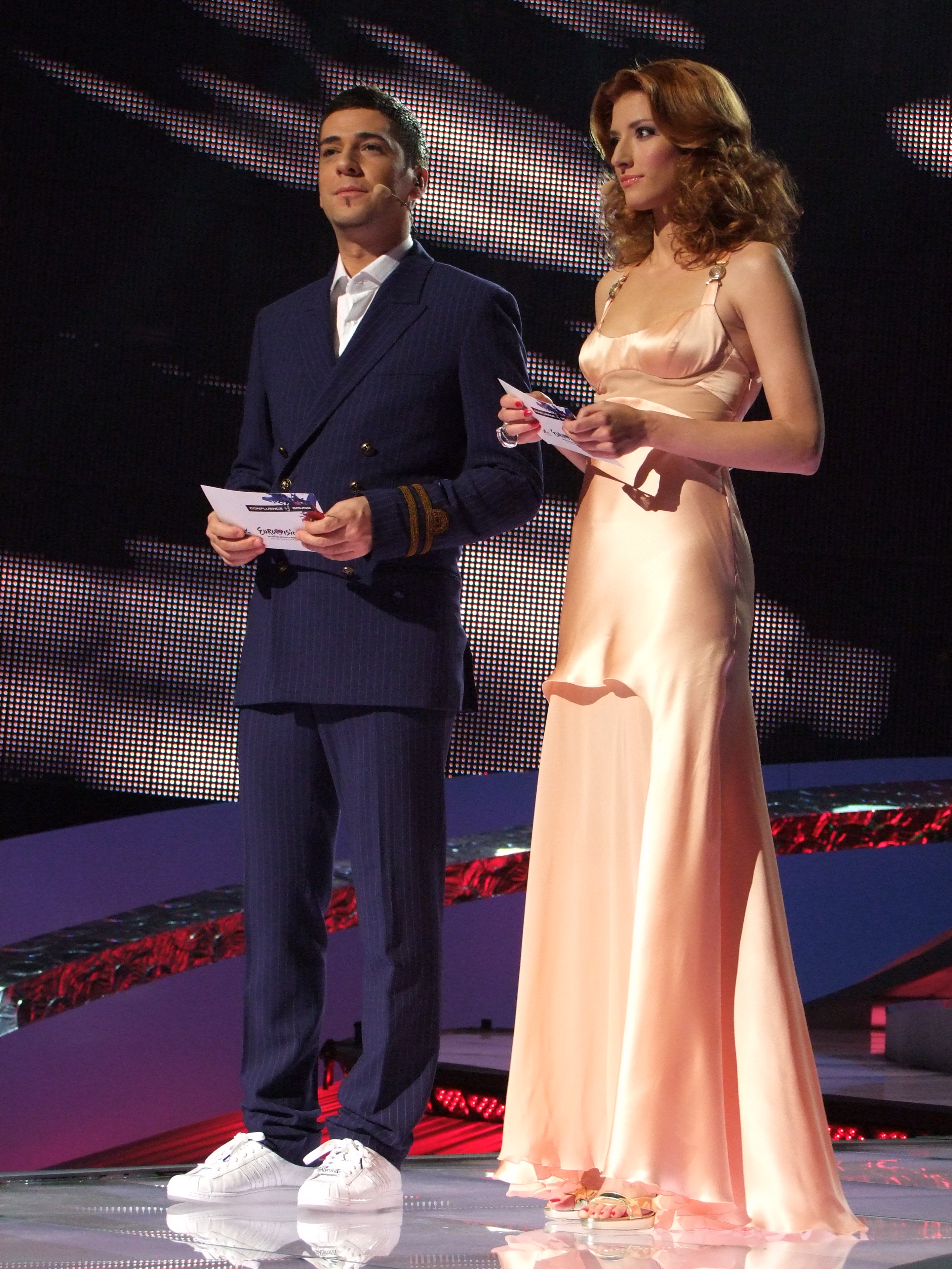 Eurovision Song Contest 2008, 1st semifinal Presenters: Željko Joksimović and Jovana Janković.